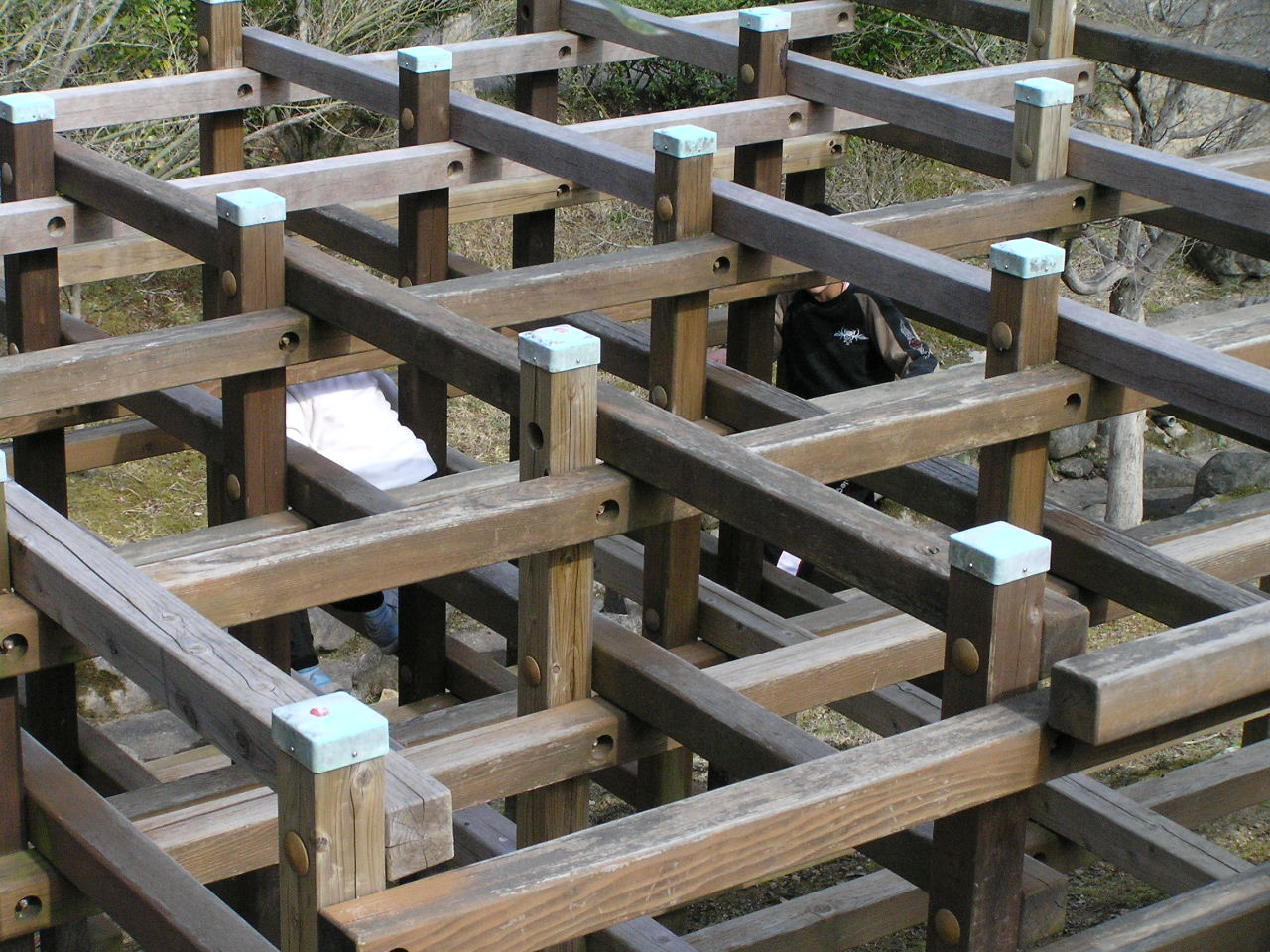 Harima Leisure Park wooden Jungle